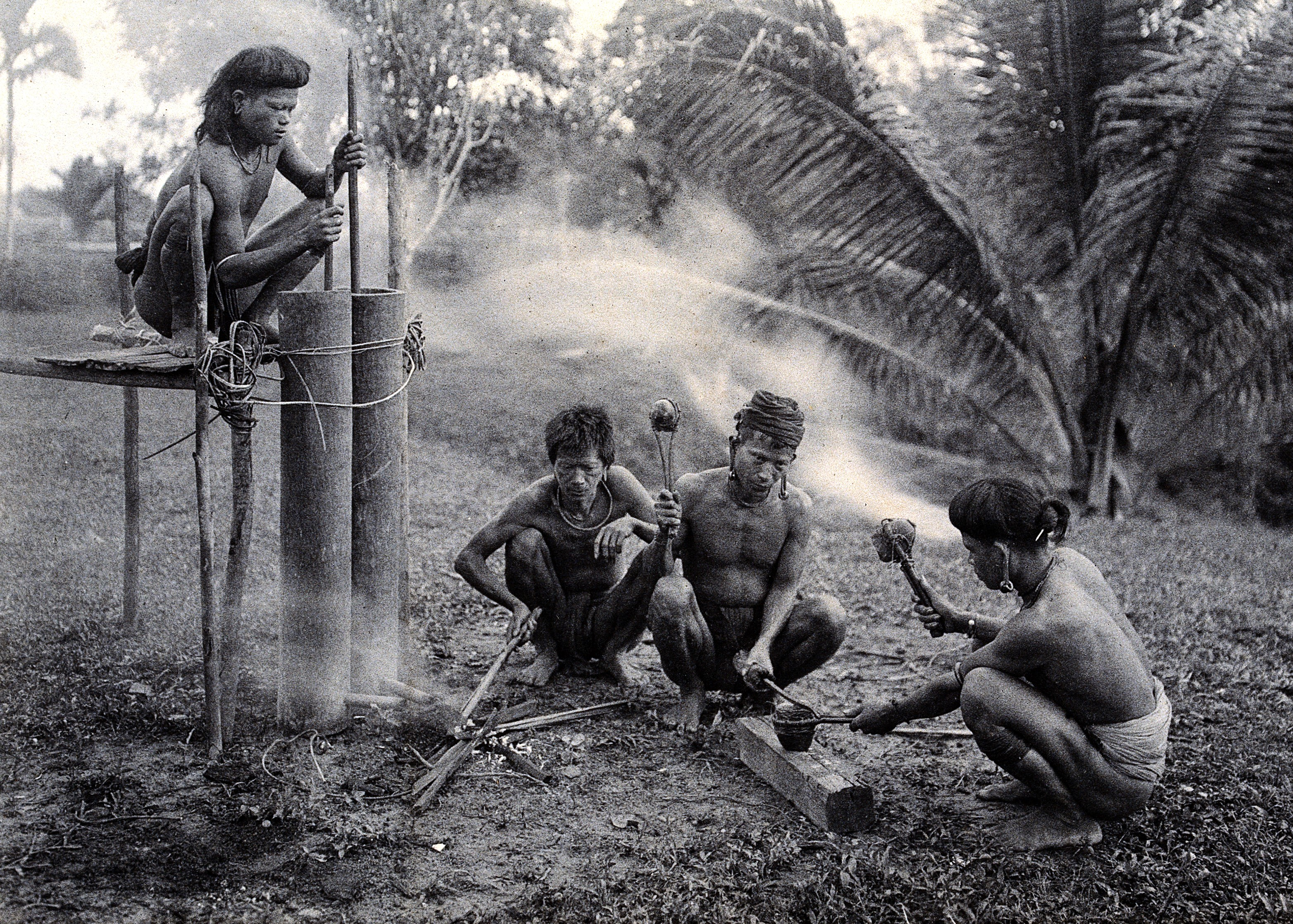 Sarawak: a native Kalabit smithy. Photograph. Iconographic Collections Keywords: Tribe; Population Groups; Borneo; Tribal; Charles Hose; Anthropology; Malaysia; Ethnography